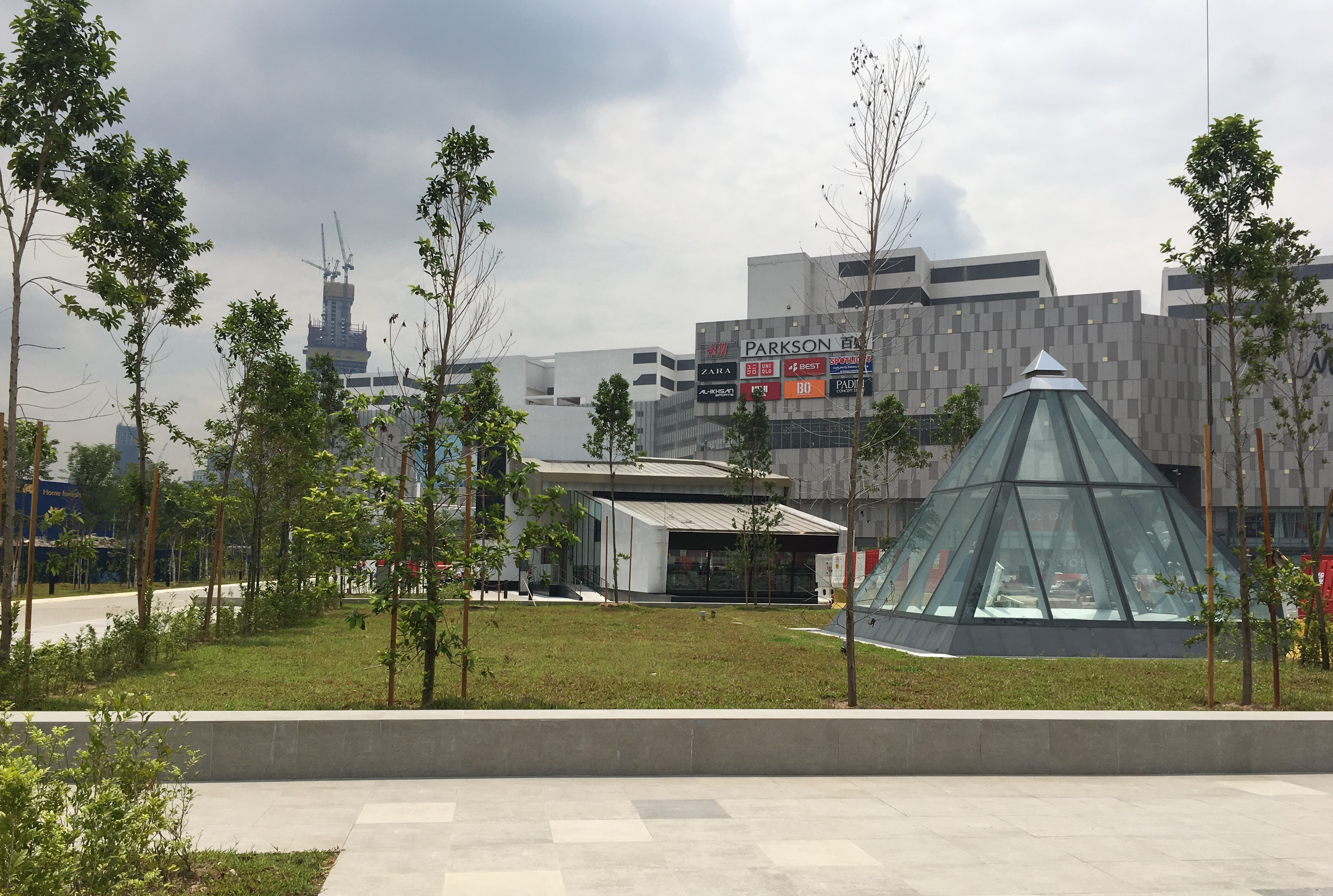 View of station skylight and Entrance A at Jalan Cochrane with the MyTown Shopping Complex in the background.